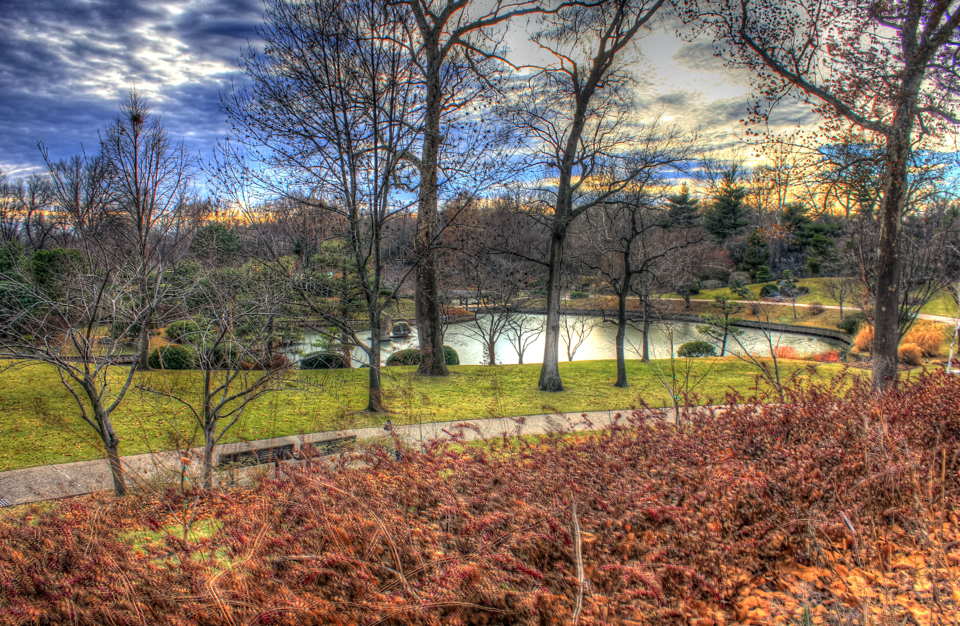 The Arch and many of the sights and scenes from St. Louis The Japanese Garden overlook